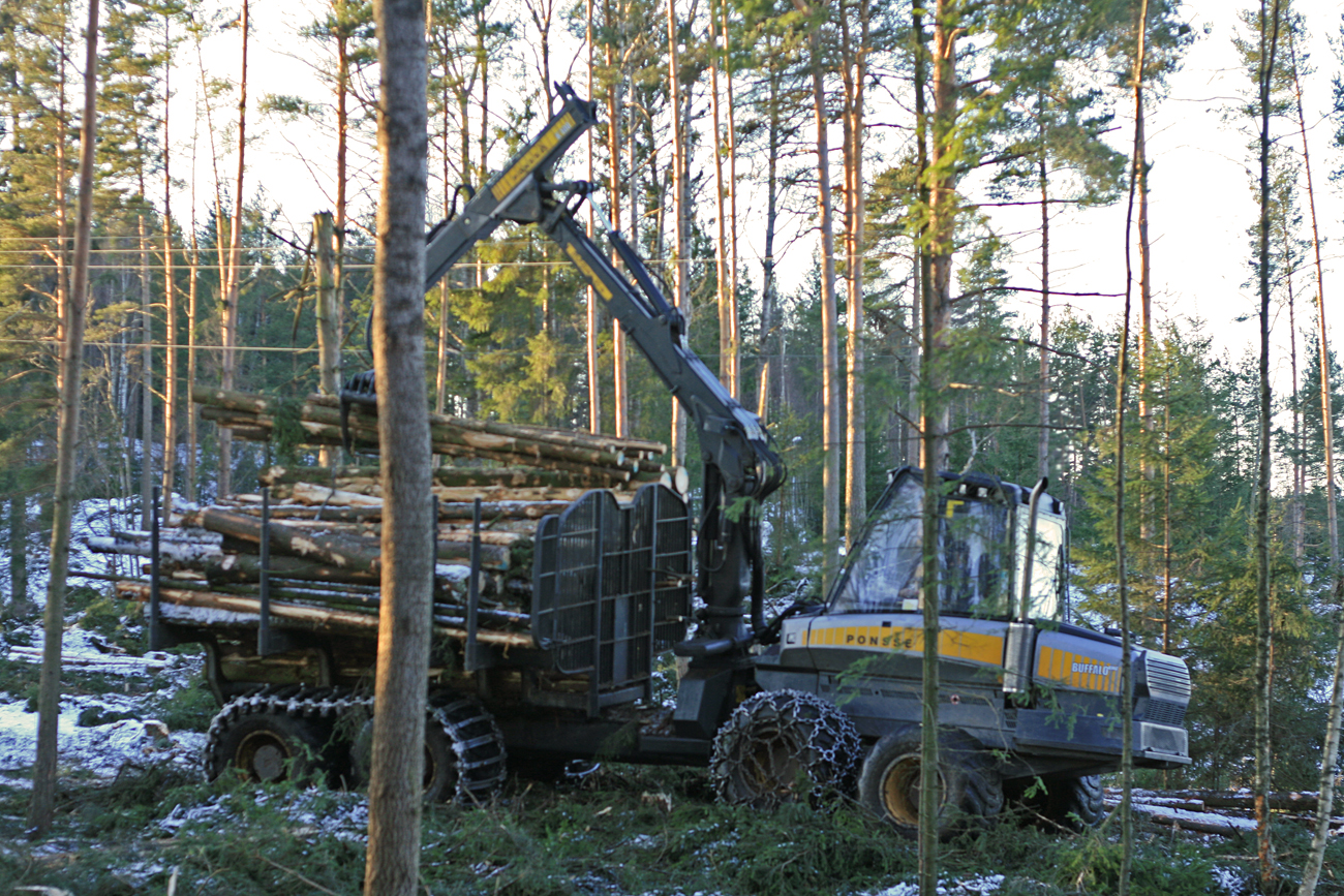 A Ponsse Buffalo forwarder at work. Hedmark, Norway.